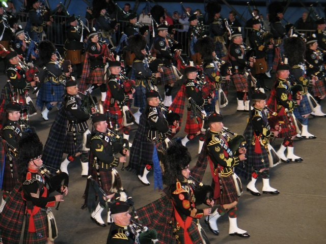 Massed Pipe Band, Edinburgh Military Tattoo, 2009 The Edinburgh Military Tattoo - performed annually by British, Commonwealth and International military bands and display teams - is held in the parade ground of Edinburgh Castle. The event takes forms part of the wider Edinburgh Festival. The principal military band for the 2009 Tattoo was provided by the Royal Air Force under the event's Principal Director of Music, Squadron Leader Duncan Stubbs, with other bands and musicians including those from Switzerland and Tonga.